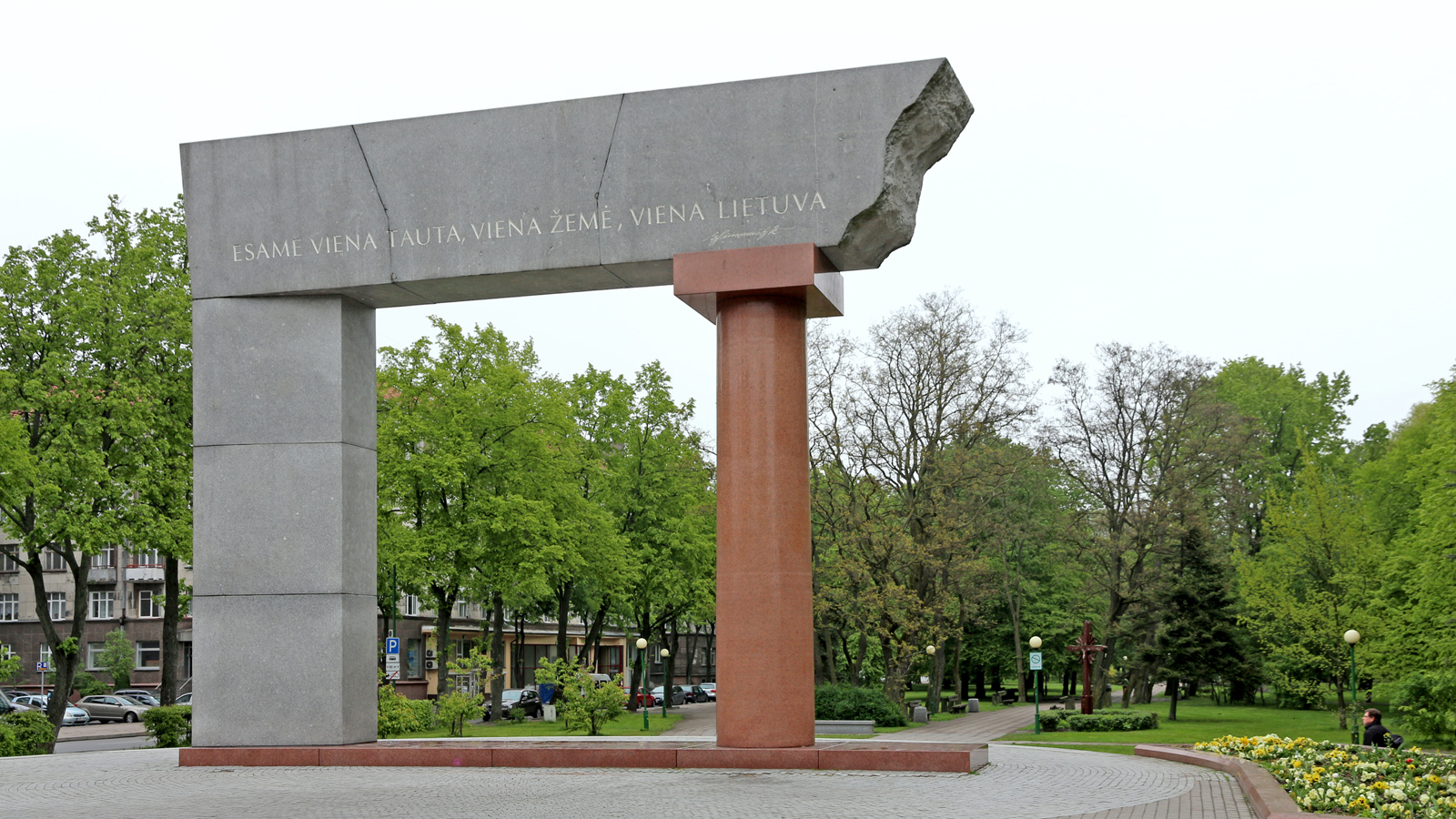 Klaipeda, Monument to the United Lithuania